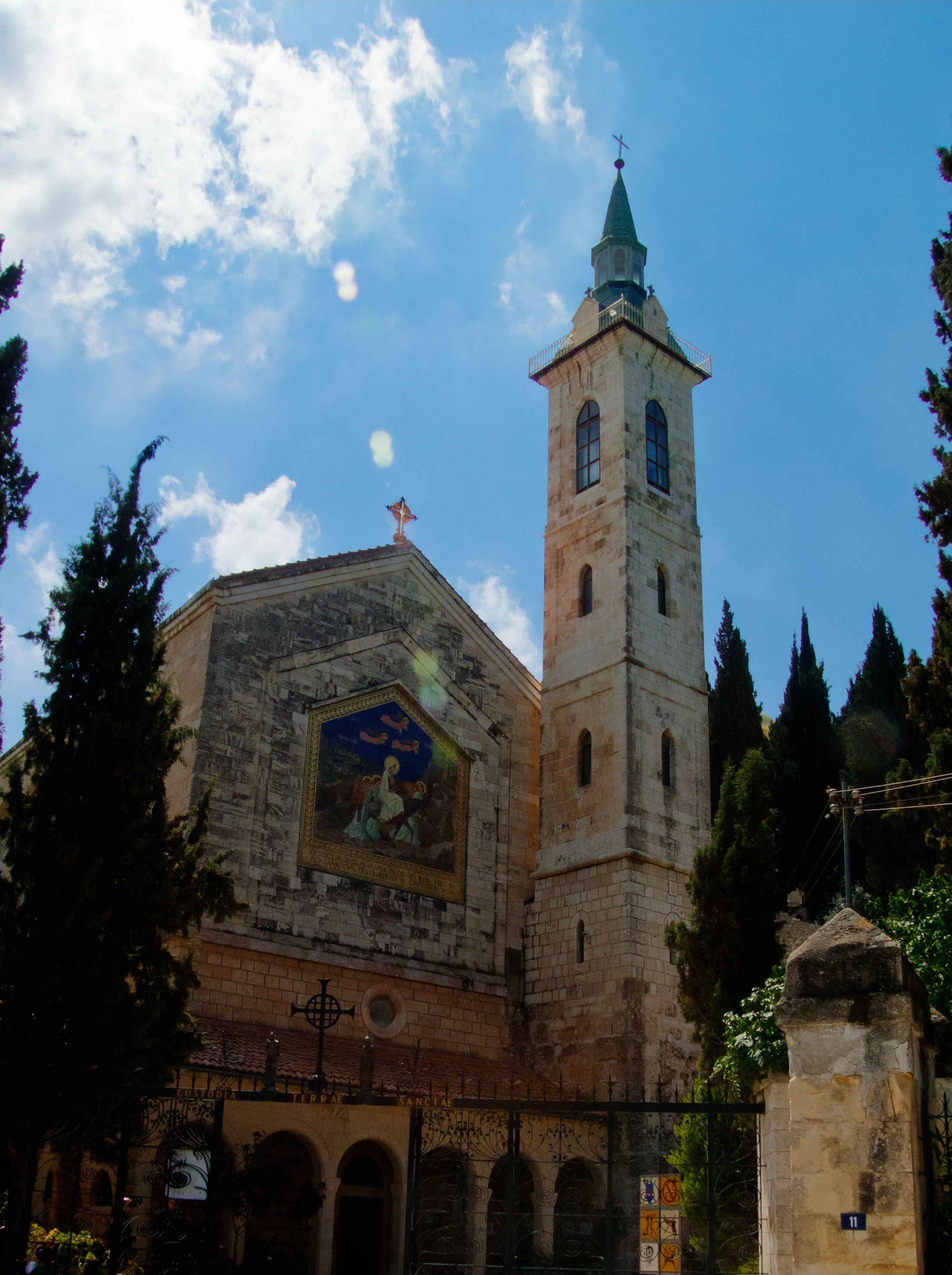 The Franciscan Visitation church in the village of Ein Kerem (Karem), on the west side of Jerusalem, is named after virgin Mary's visited to the summer house of the parents of John the Baptist. Ein Kerem is according to tradition the birthplace of John the Baptist